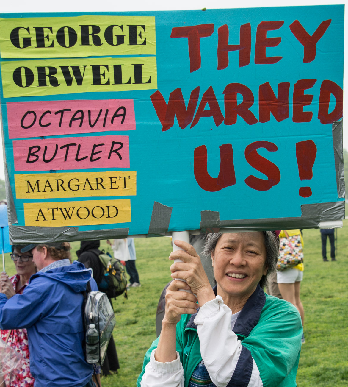 Sign at the March for Science 2017 in Washington, DC. “George Orwell, Octavia Butler, Margaret Atwood - They Warned Us!” Reference to: Nineteen Eighty-Four (1949) by George Orwell Parable of the Talents (1998) by Octavia Butler The Handmaid's Tale (1985) by Margaret Atwood